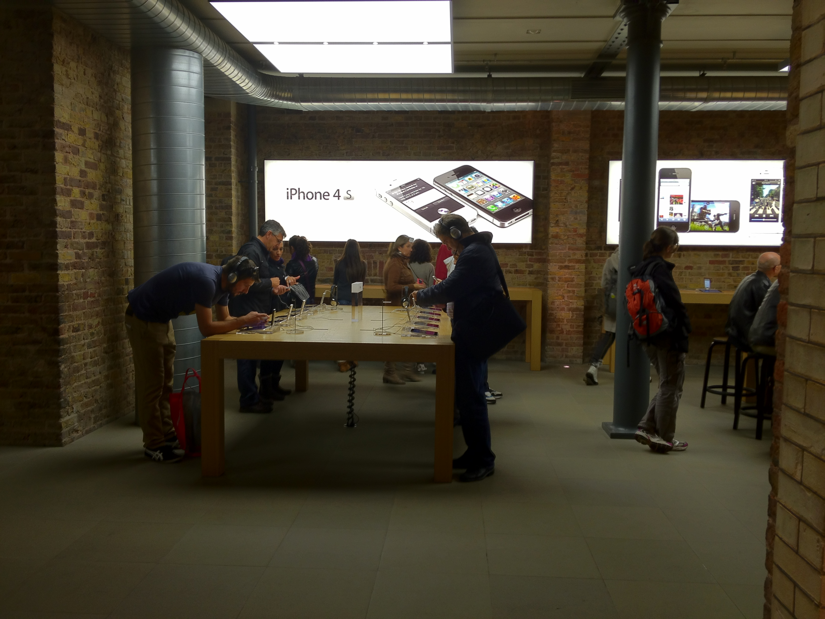 Users looking at an iPhone 4S in an Apple Store.